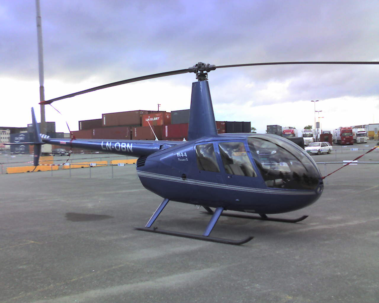 A Robinson R44 Raven II helicopter offering an aerial tour of Trondheim, Norway. Taken and released into the public domain by User:Kallemax.